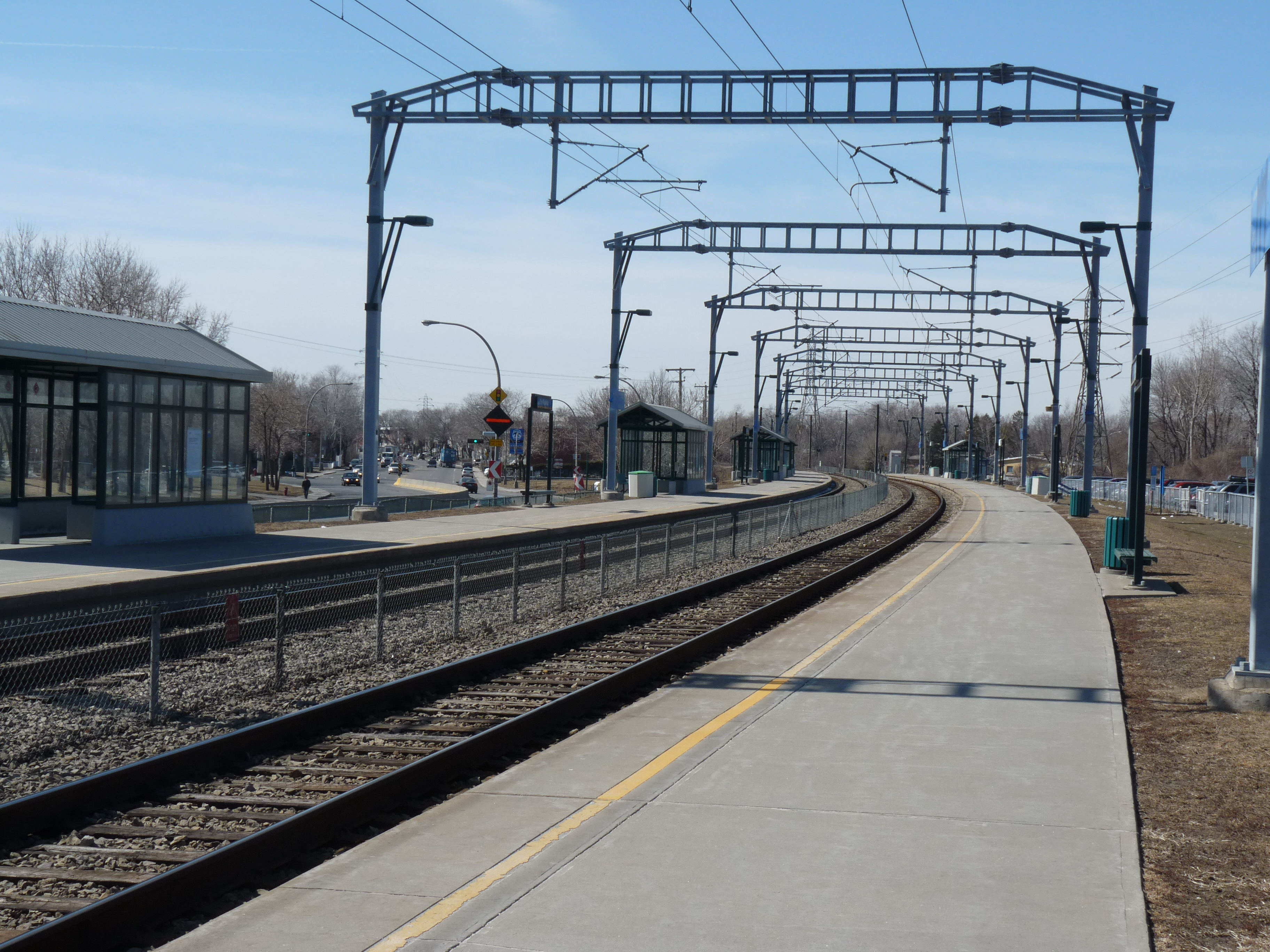 View toward the West of the plaforms of the Du Ruisseau suburb train station in Saint-Laurent burrough of Montreal, Canada. It part of the Montreal-Deux-Montagnes train line of the AMT.